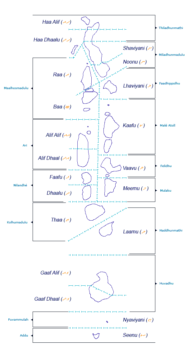 Map identifying Atolls of the Maldives. Thaana letter for each atoll is indicated inside the bracket.